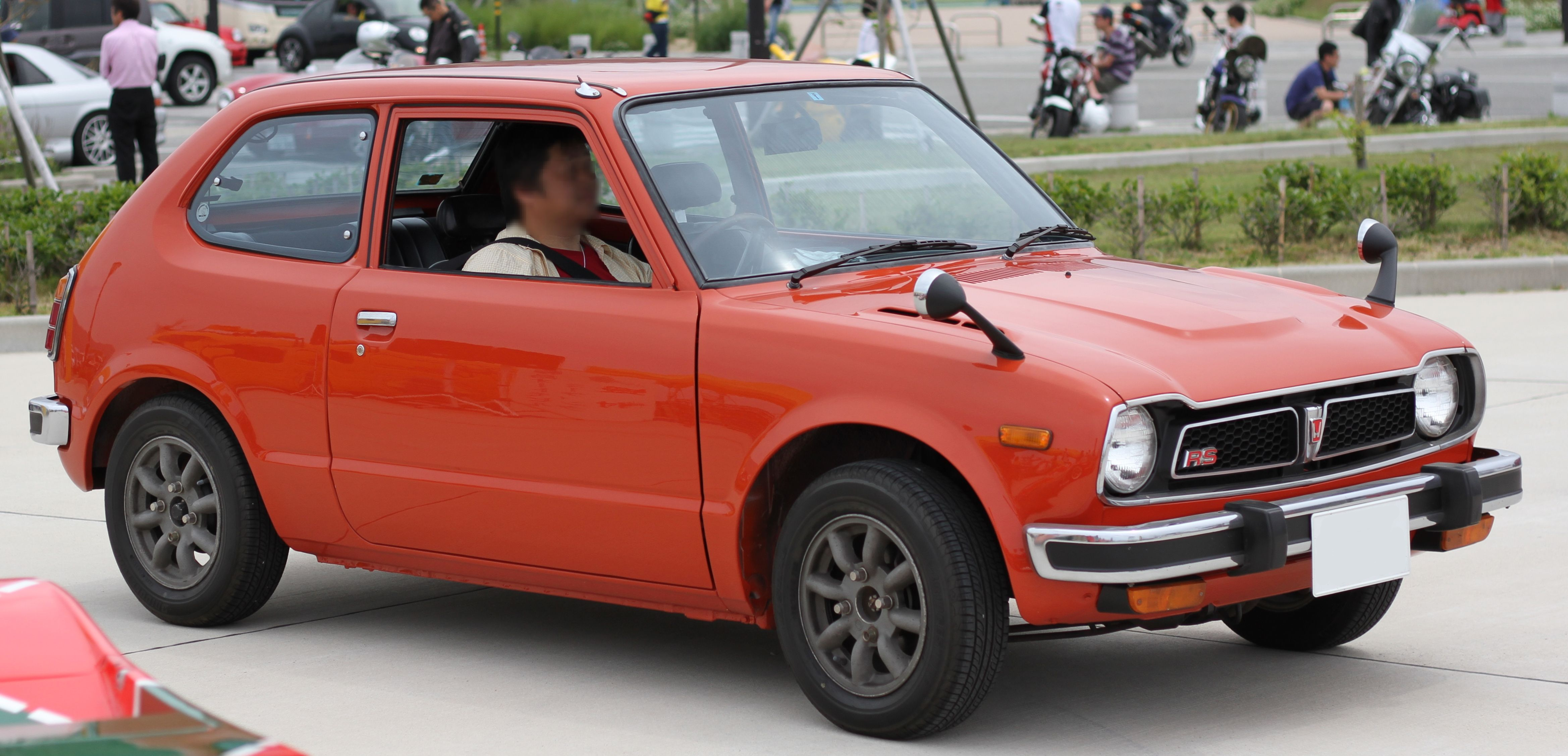 Honda Civic